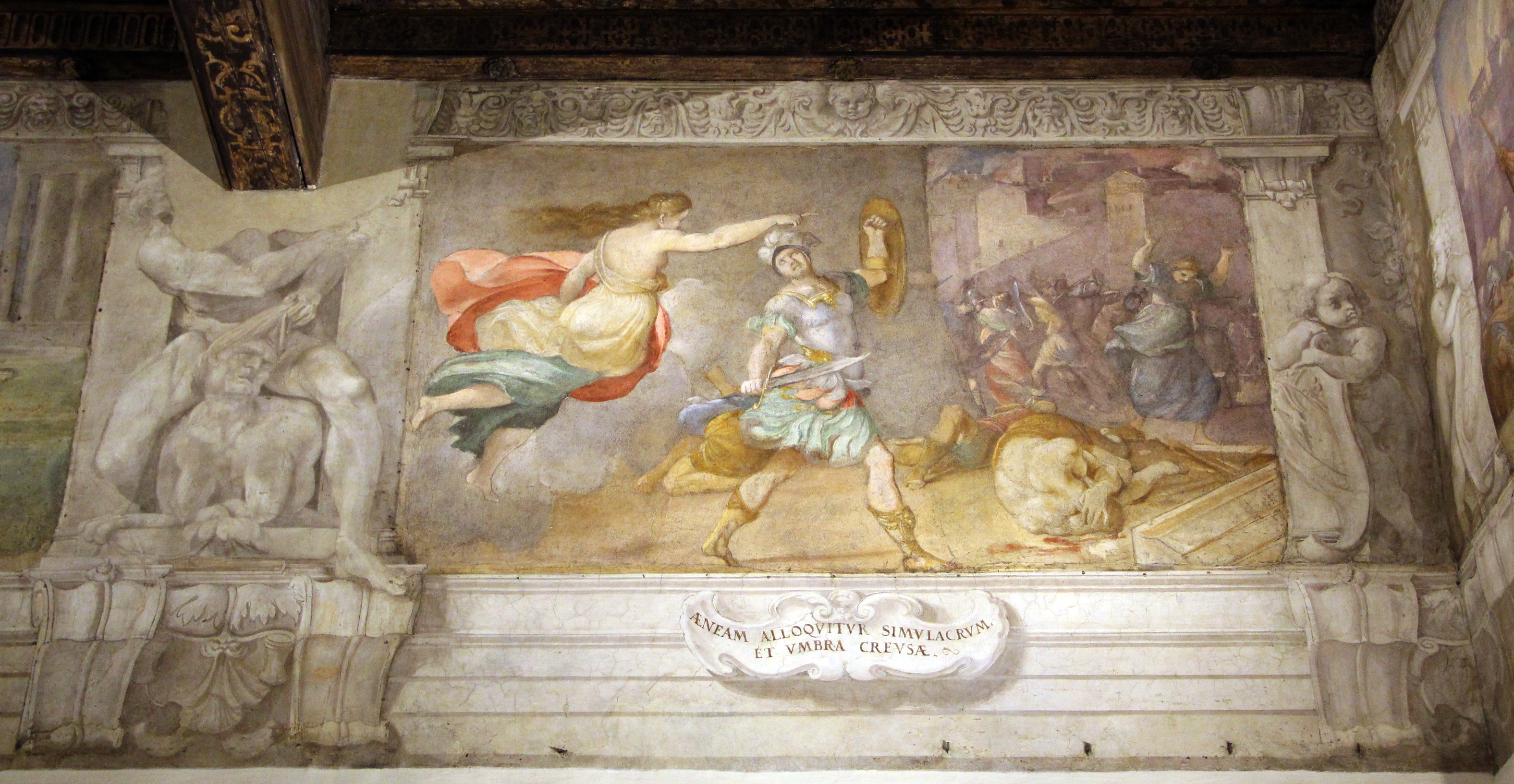 Frieze of Aeneas by the Carracci family